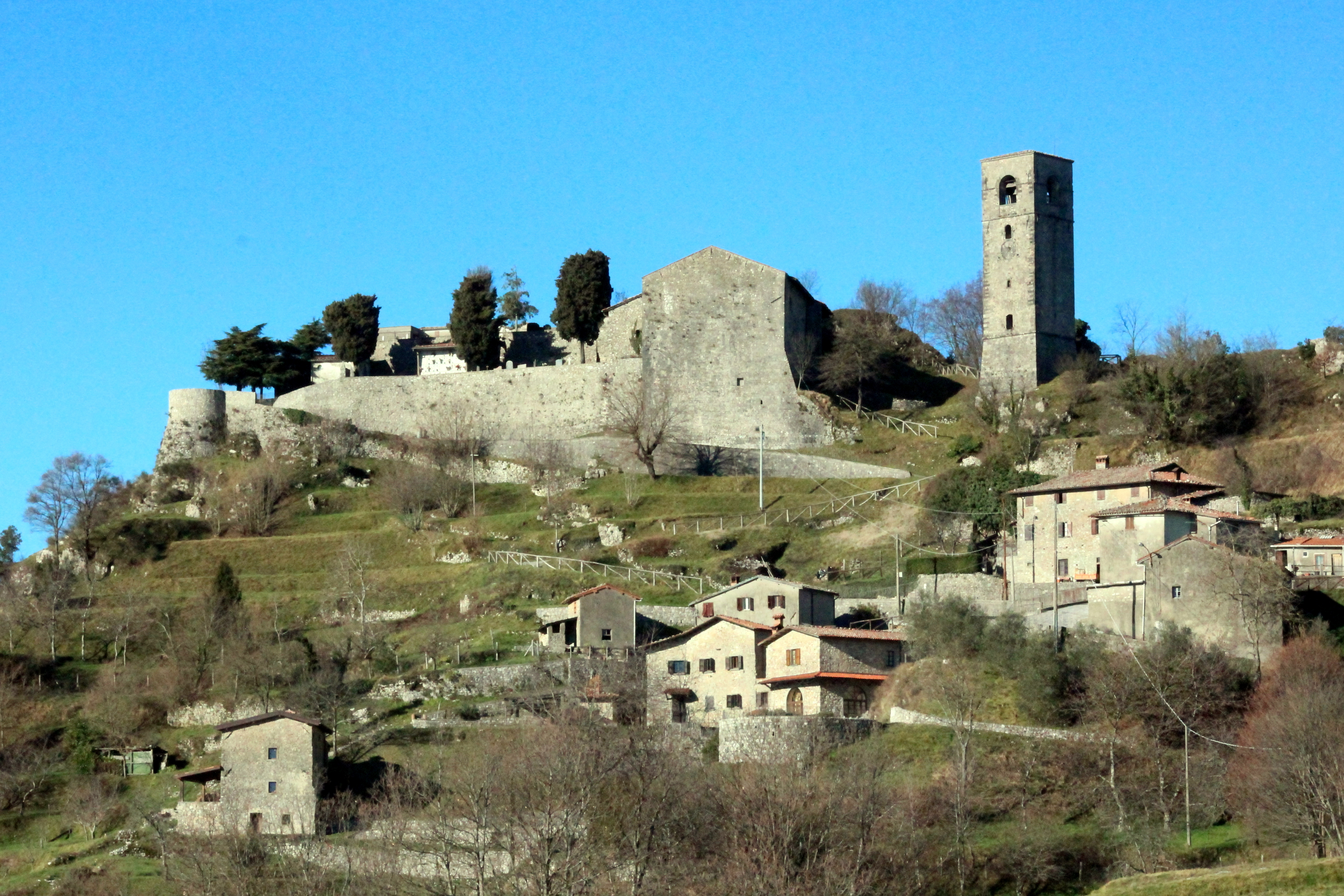 Castle Rocca di Sassi in Sassi, hamlet of Molazzana, Garfagnana, Province of Lucca, Tuscany, Italy